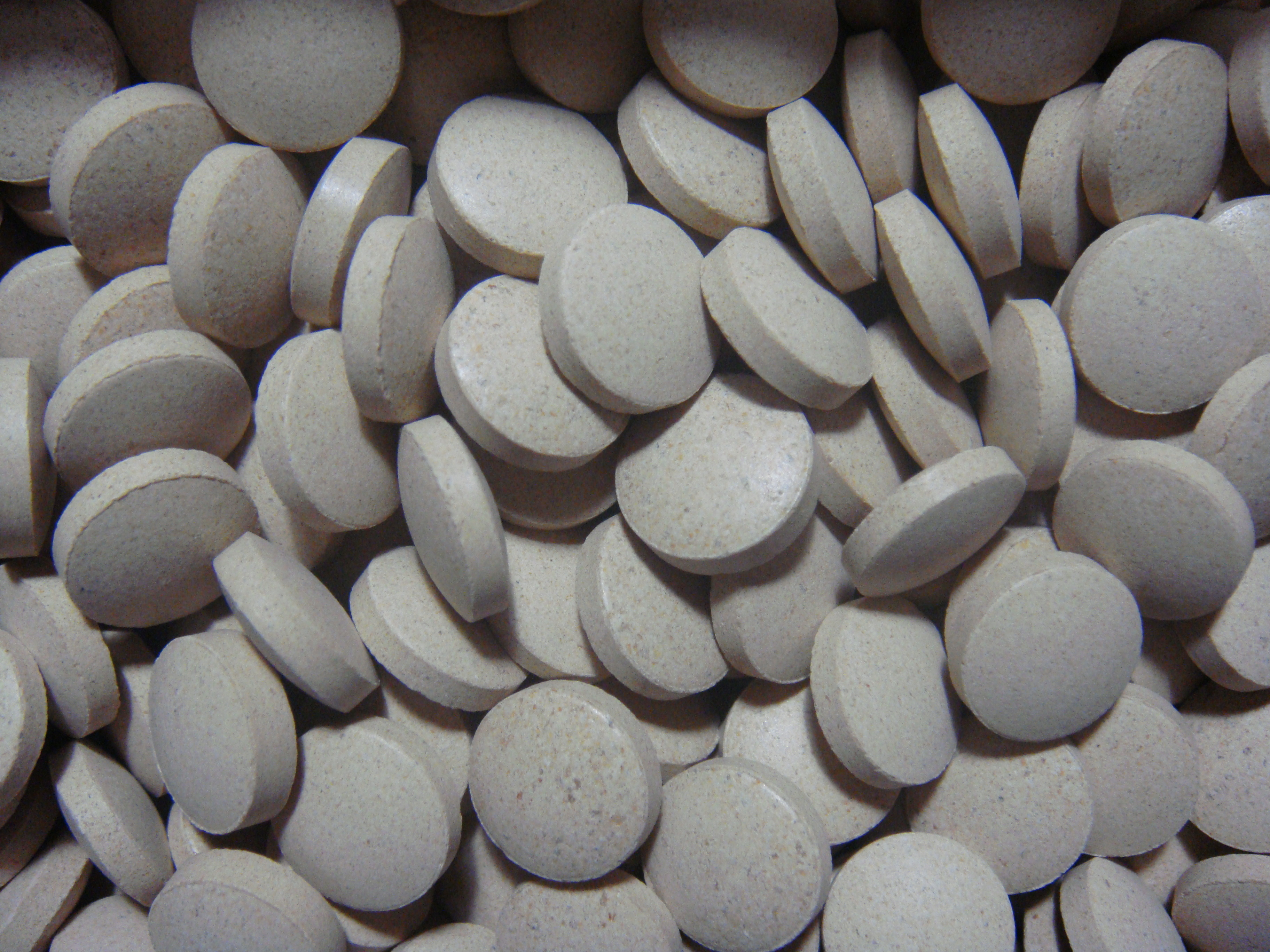 Brewer's yeast tablets as a dietary supplement.